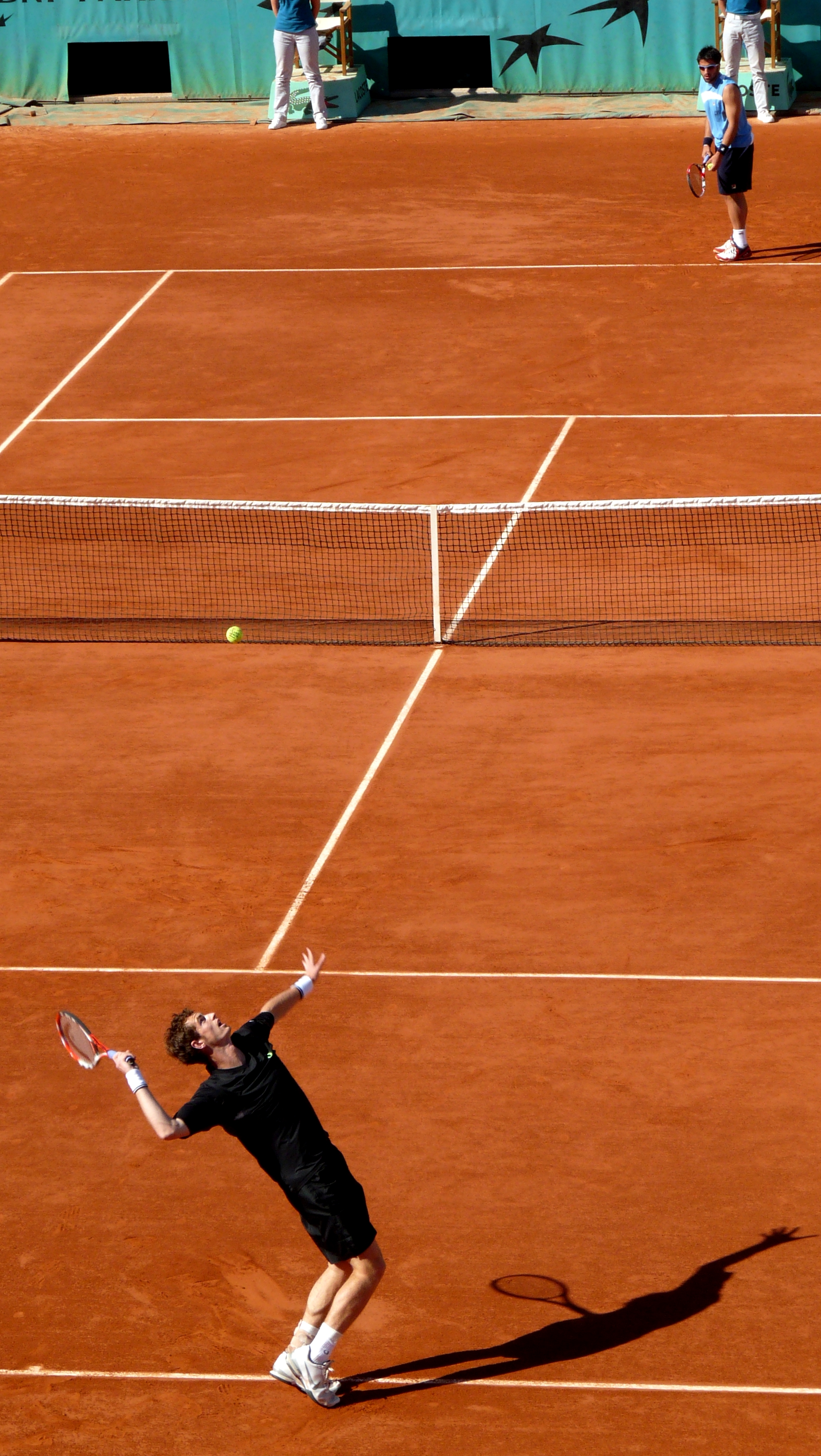 Andy Murray serves to Janko Tipsarević in the 2009 French Open third round